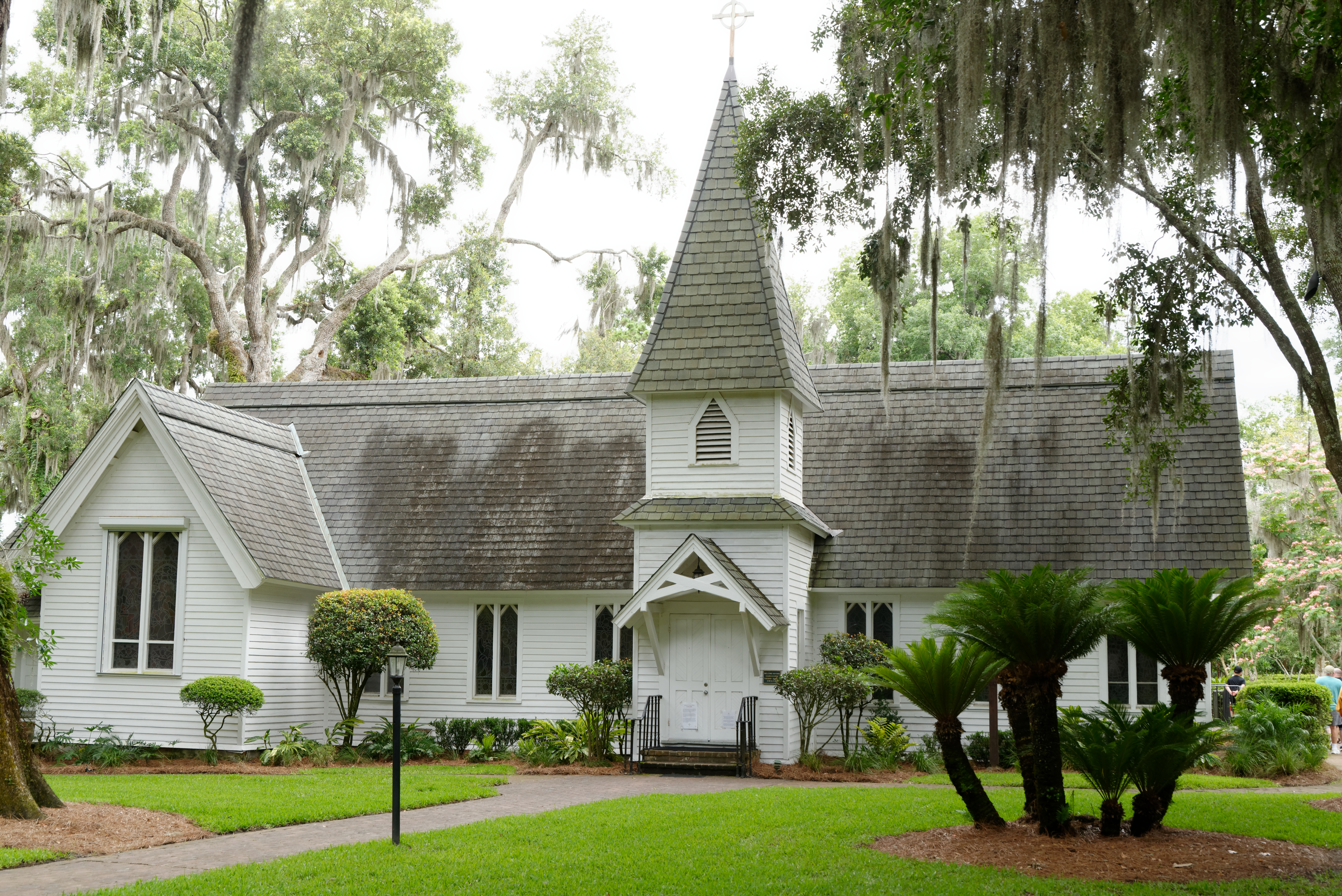 Christ Church on St. Simons Island, Georgia, U.S.